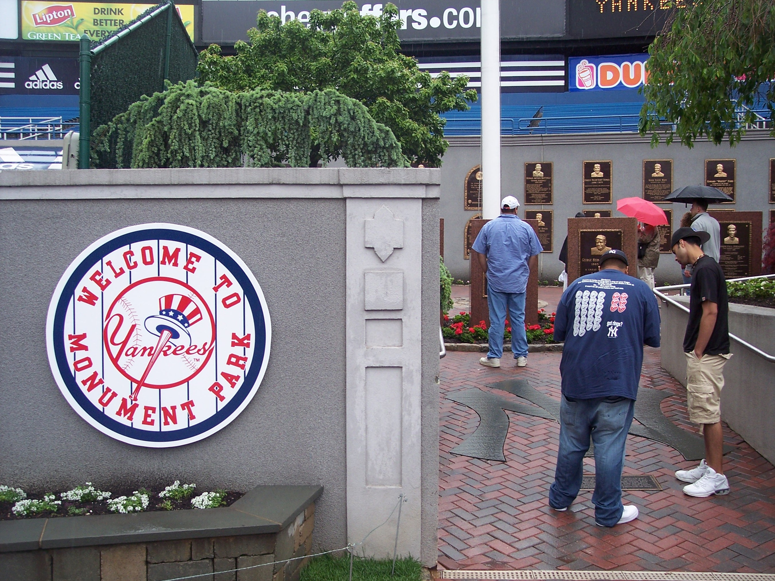 02:10, 22 August 2006 . . Silent Wind of Doom . . 2700×2025 (1,536,695 bytes) (Source: I, the Silent Wind of Doom took the picture on a tour of Yankee Stadium)